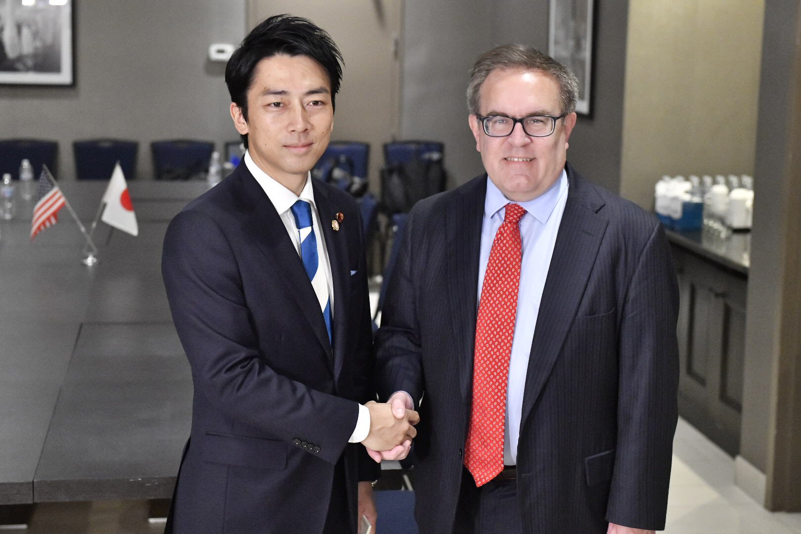 @EPAAWheeler: Glad to meet with our international partners and discuss how best to solve our shared environmental issues. Looking forward to achieving this shared vision. ⁦@USCIB @JapanEmbDC